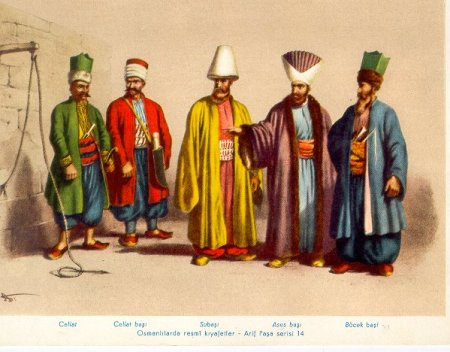 Official uniforms of the Ottomans, Arif Paşa series. Cellad (Executioner), Celladbaşı (Chief Executioner), Subaşı (City Police Chief), Asesbaşı (Janissary Police Chief), Böcek Başı (Secret Police Chief)